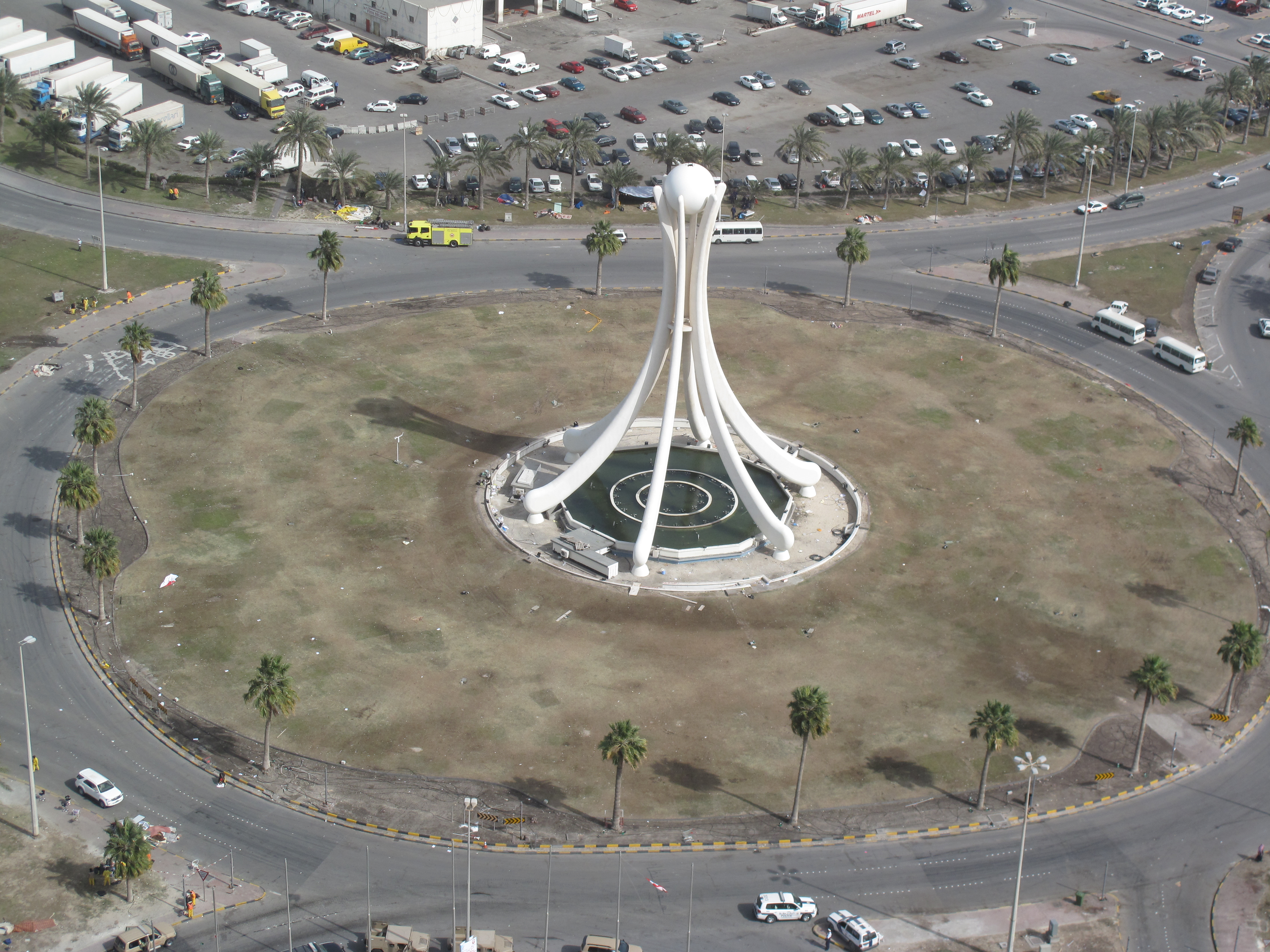 Pearl Roundabout completely cleared of protesters and tents